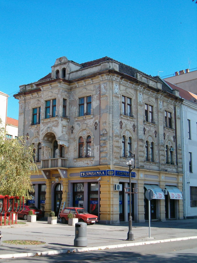 Bukovac palace today